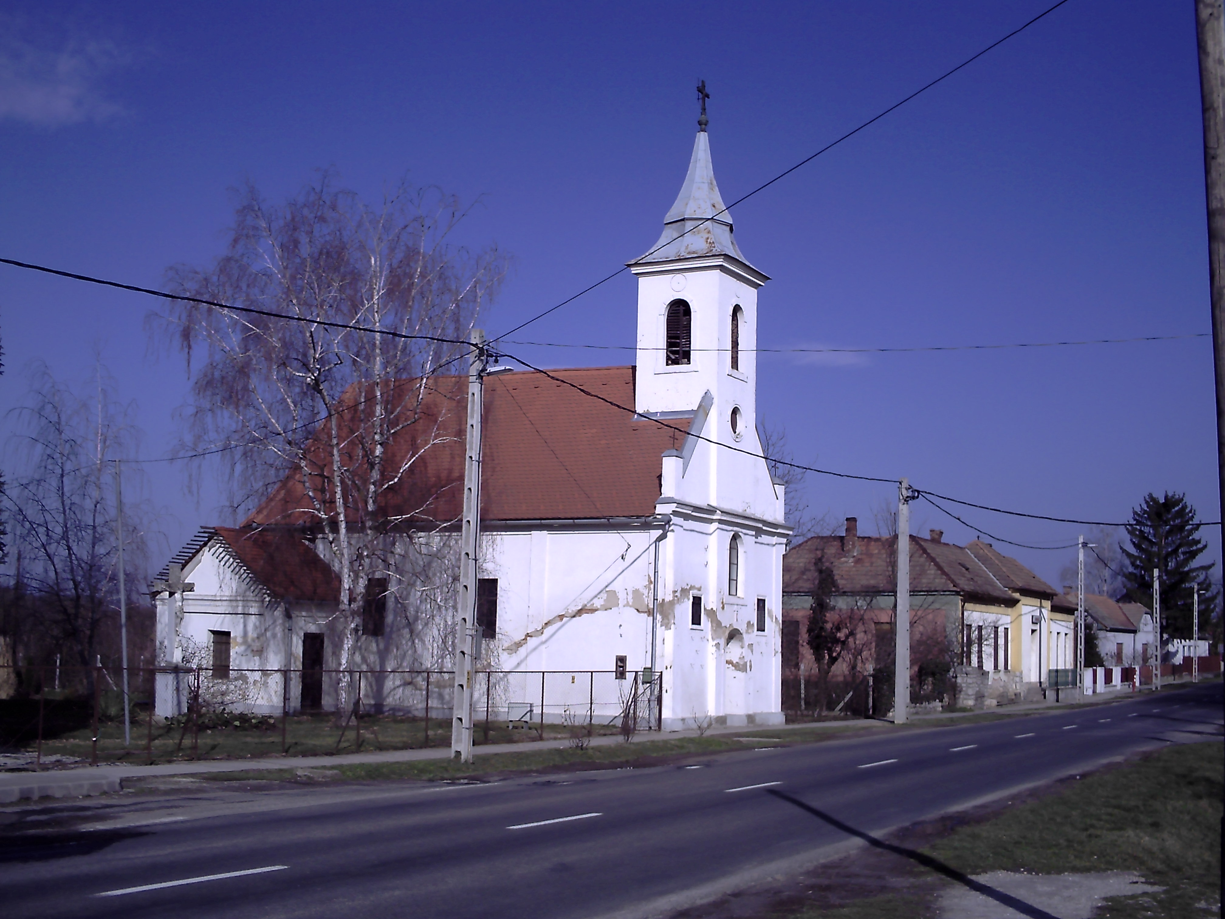 Catholic church of Somogyapáti as of 08th of March, 2009